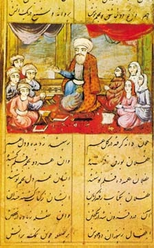 Miniature from Maktabi's "Leyli and Majnun".